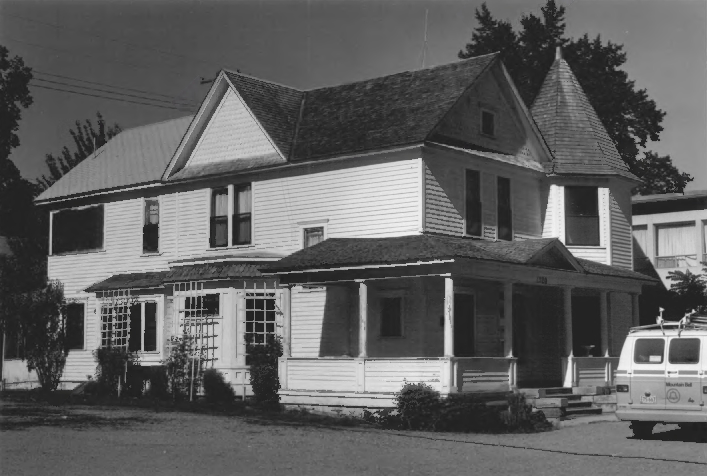 The historic John C. Rice House (built 1895), formerly located at 1520 Cleveland Boulevard in Caldwell, Idaho, United States, is listed on the US National Register of Hisoric Places. The house has been demolished.